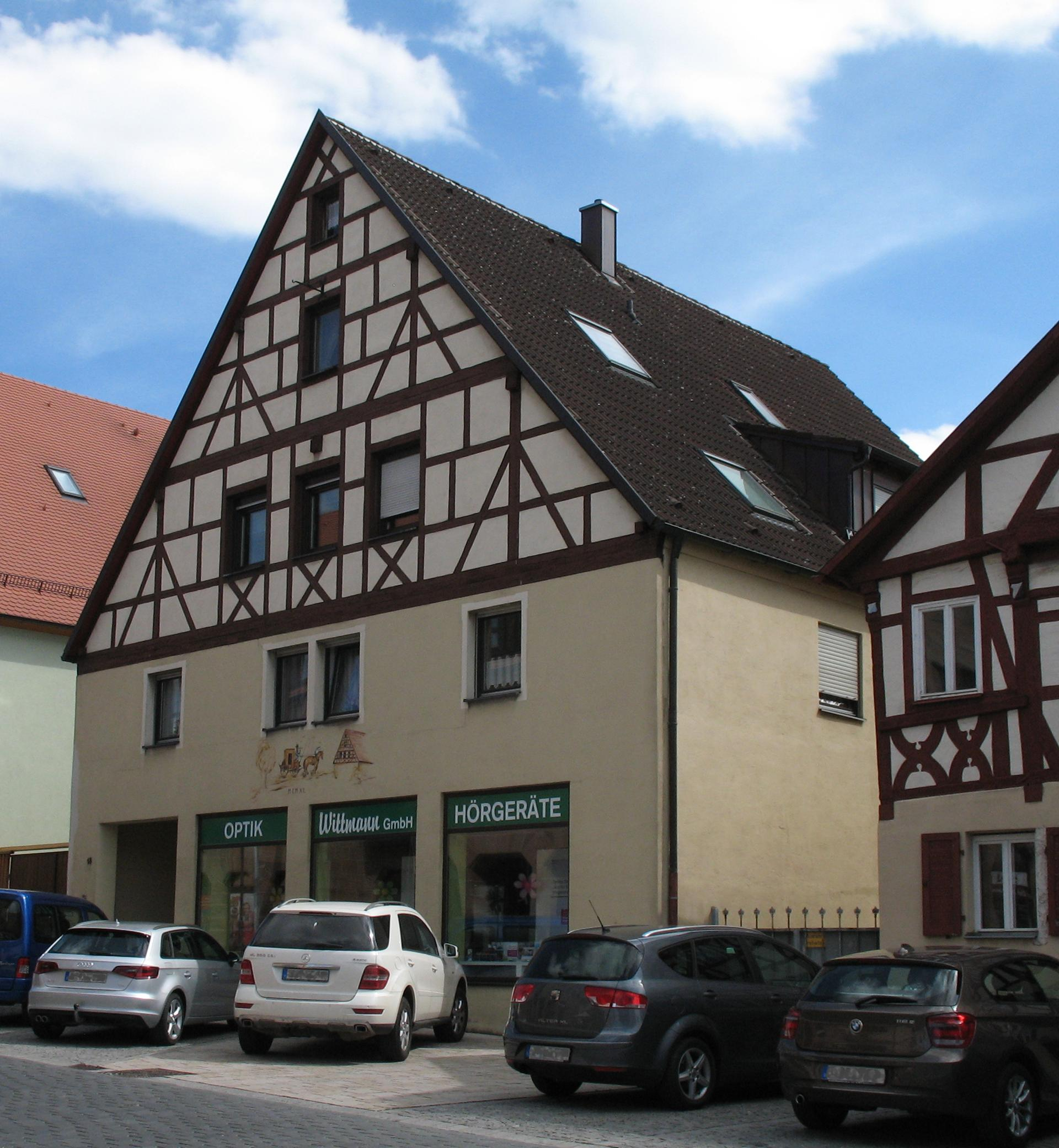 Listed building in Hilpoltstein in Bavaria, Germany